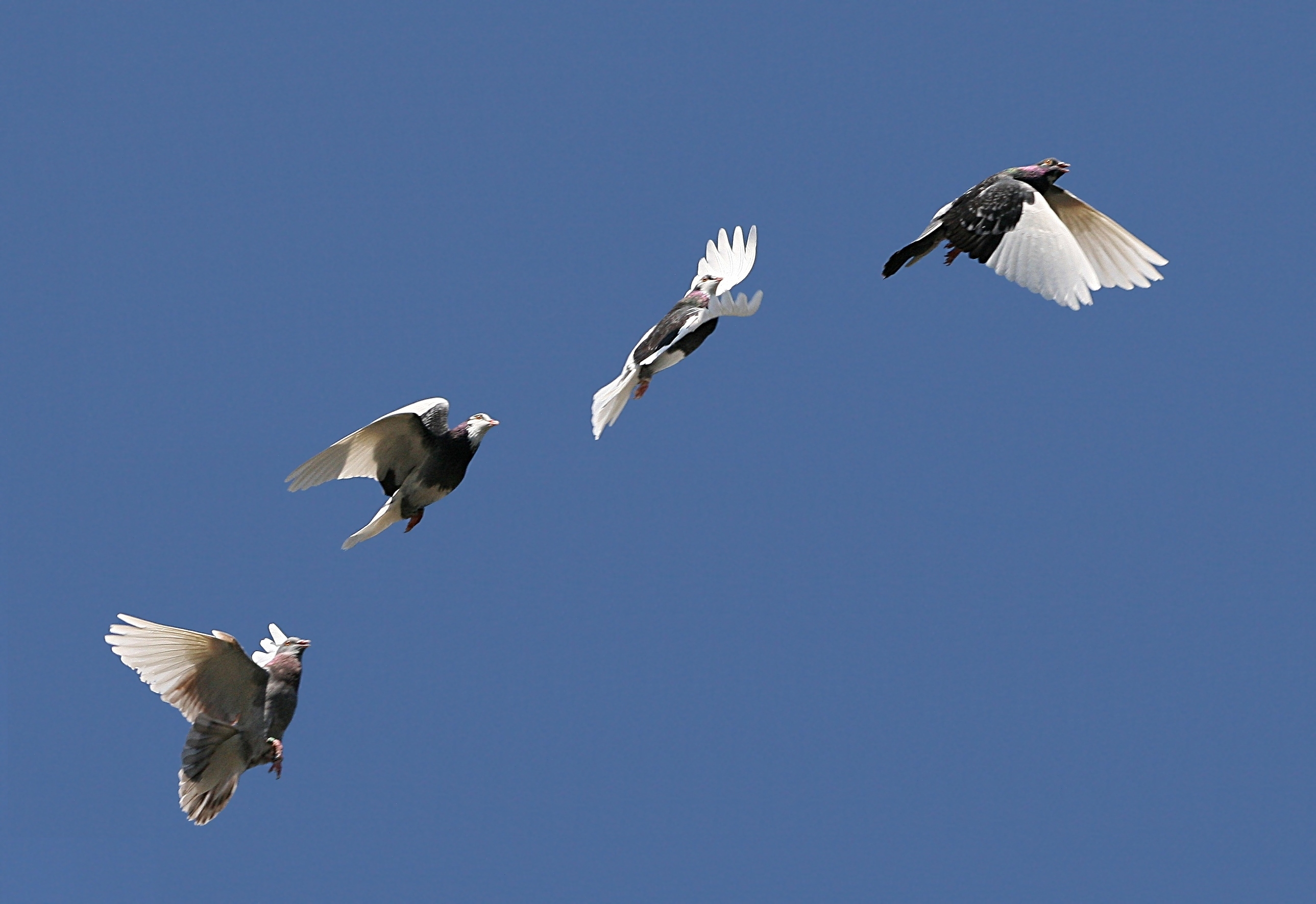 Columba livia f. domestica. Individual pigeons in flight showing different stroke phases, combined to illustrate pigeon flight.